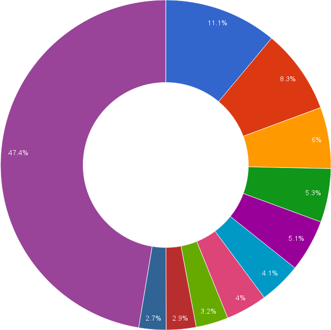 陳 Chen 林 Lin 黃 Huang 張 Chang 李 Li 王 Wang 吳 Wu 劉 Liu 蔡 Tsai 楊 Yang Other